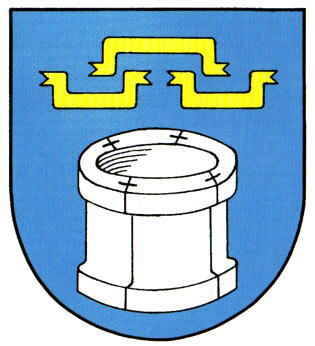 Coat of arms of the municipality of Beckeln